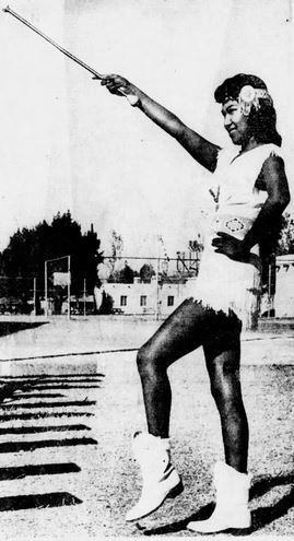 Veronica Homer (later Murdock) in 1961, Majorette for the Navajo Marching Band at the JFK Inauguration